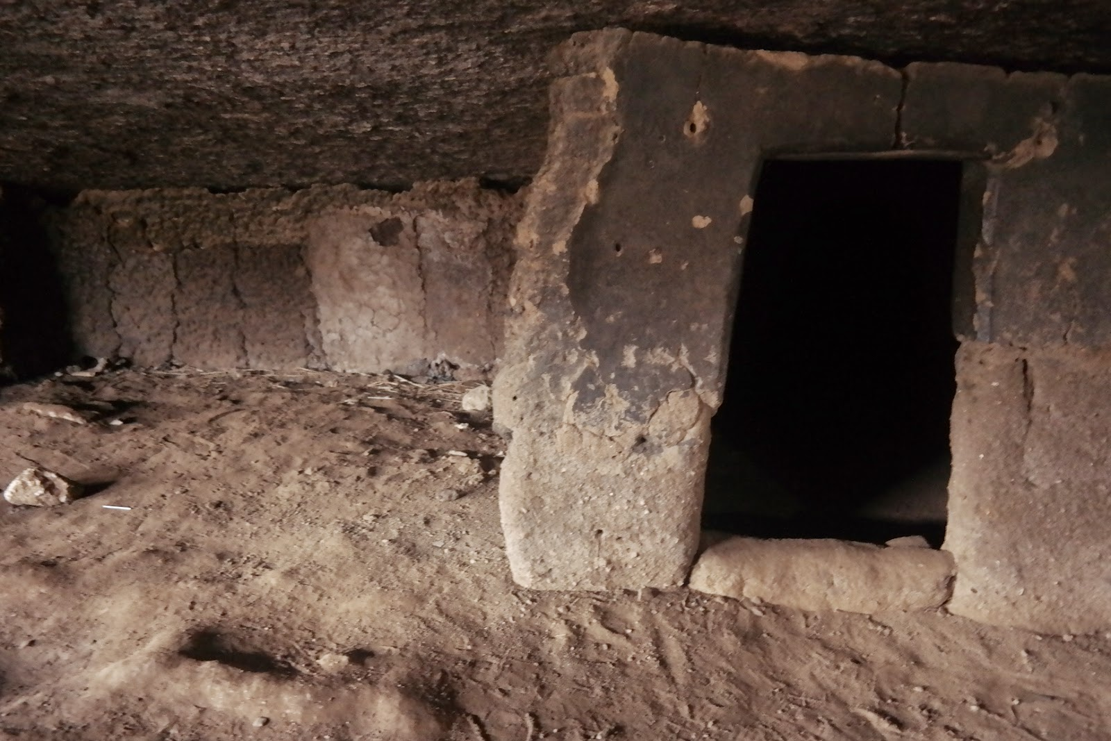 This entrance leads into the cave in which the Egba people hid during the ancient Egba-Dahomey (now the Republic of Benin) war over territorial expansion. The war happened between 1851-1864. This entrance leads to the cave which is under the rock, hence, the name Abeokuta. Abeokuta is a Yoruba word which means under the rock. Abe means under while Stone and Rock are called Okuta in Yoruba.